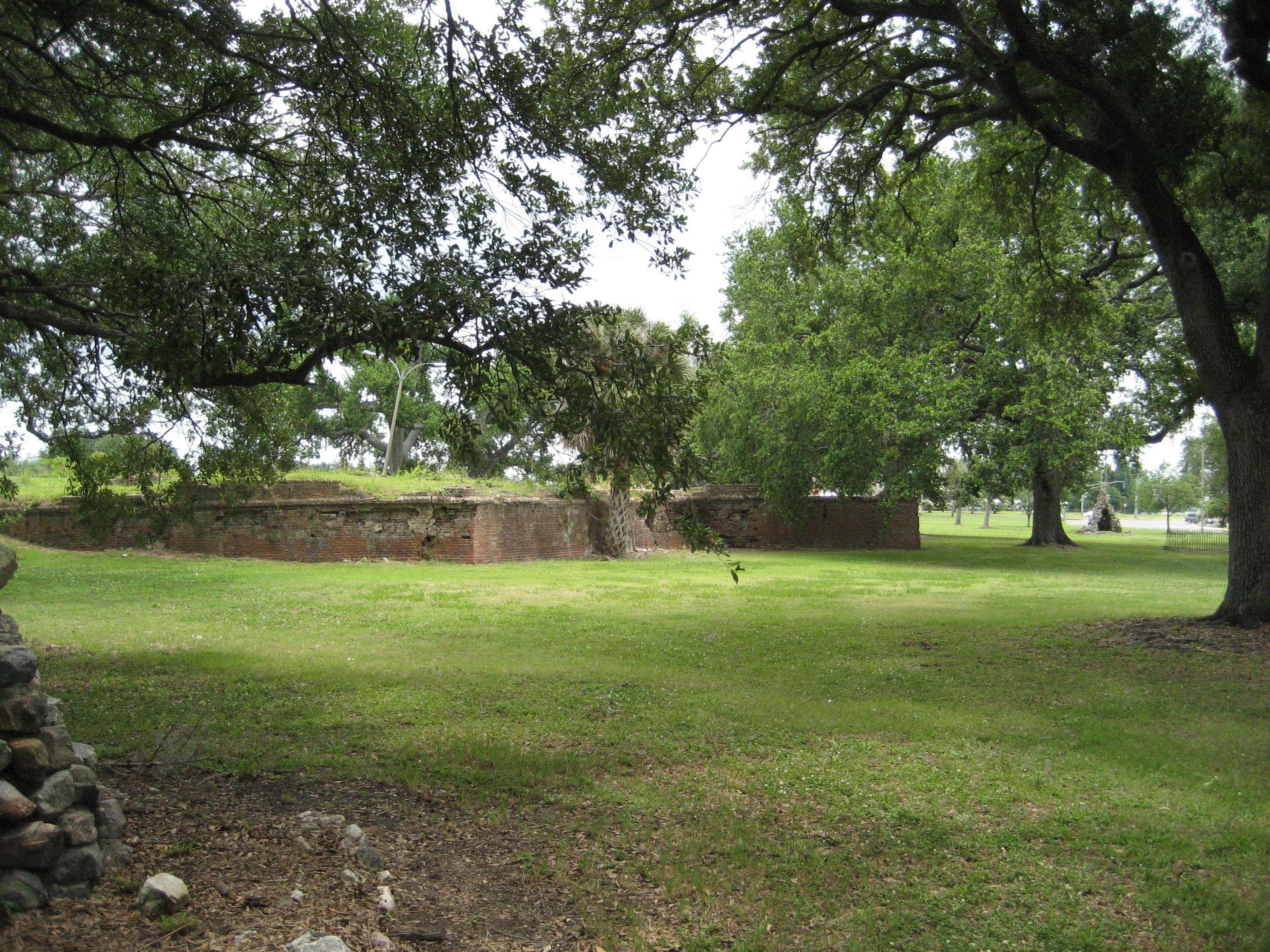 New Orleans: Ruins of Fort St. Jean or "Old Spanish Fort" at Bayou St. John.